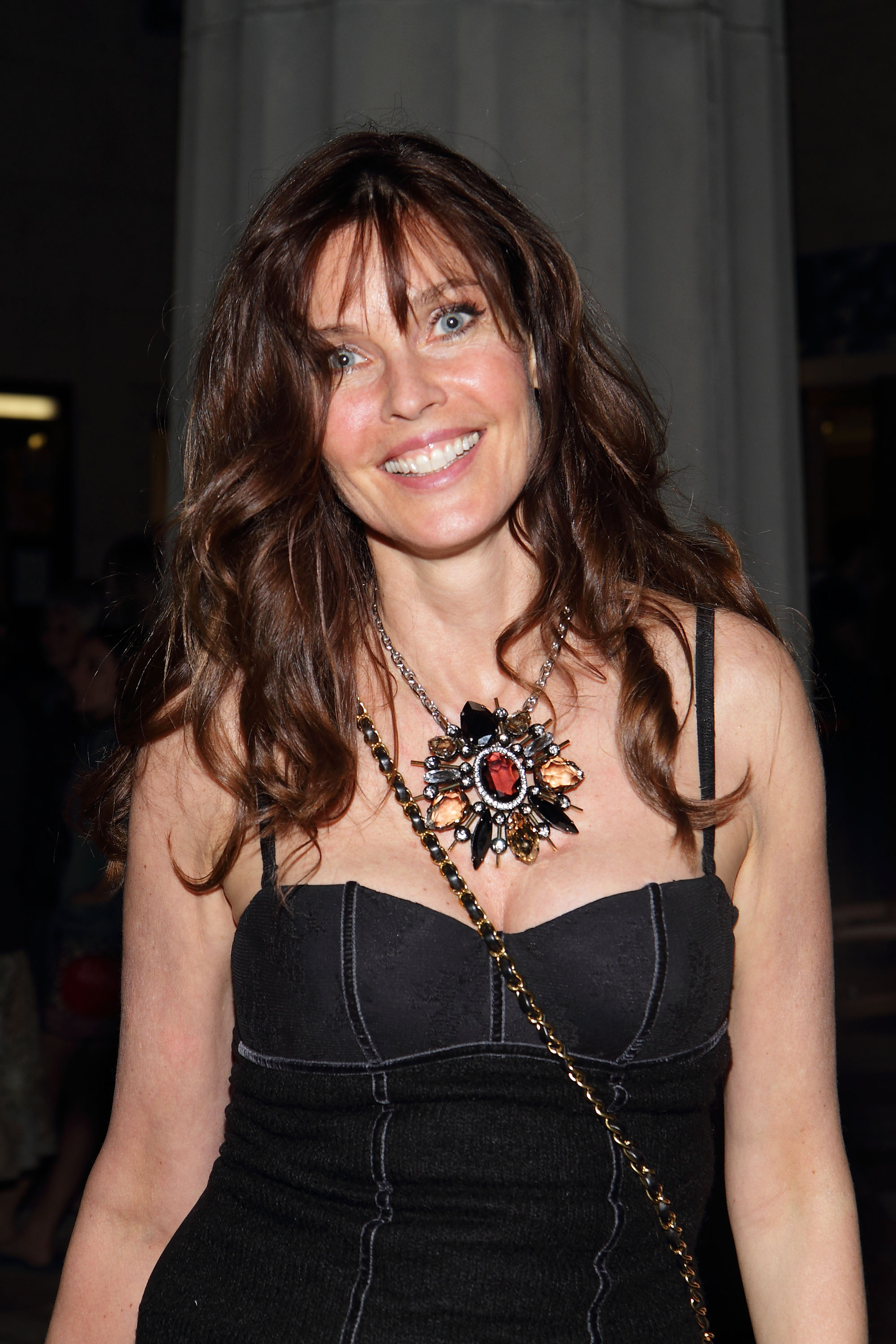 Model Carol Alt at the 2012 Miami International Film Festival screening of ABOUT FACE- THE SUPERMODELS THEN AND NOW at Coral Gables Art Cinema